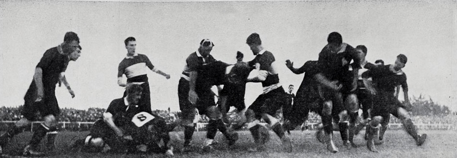 The Anglo-Welsh rugby union team playing New Zealand in Dunedin while touring there in 1908. Cropped from original, but description read: "A loose scramble in the first test match between the British rugby football team at the New Zealand representatives at Dunedin, June 6, 1908."